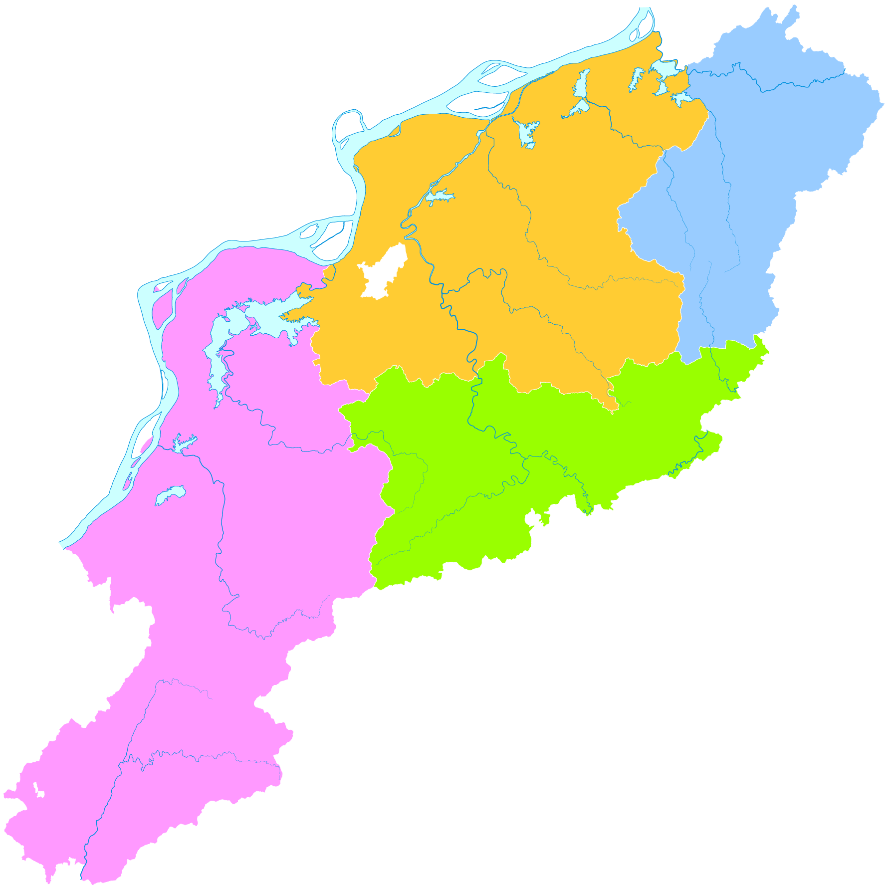 administrative divisions of Chizhou City, Anhui, China